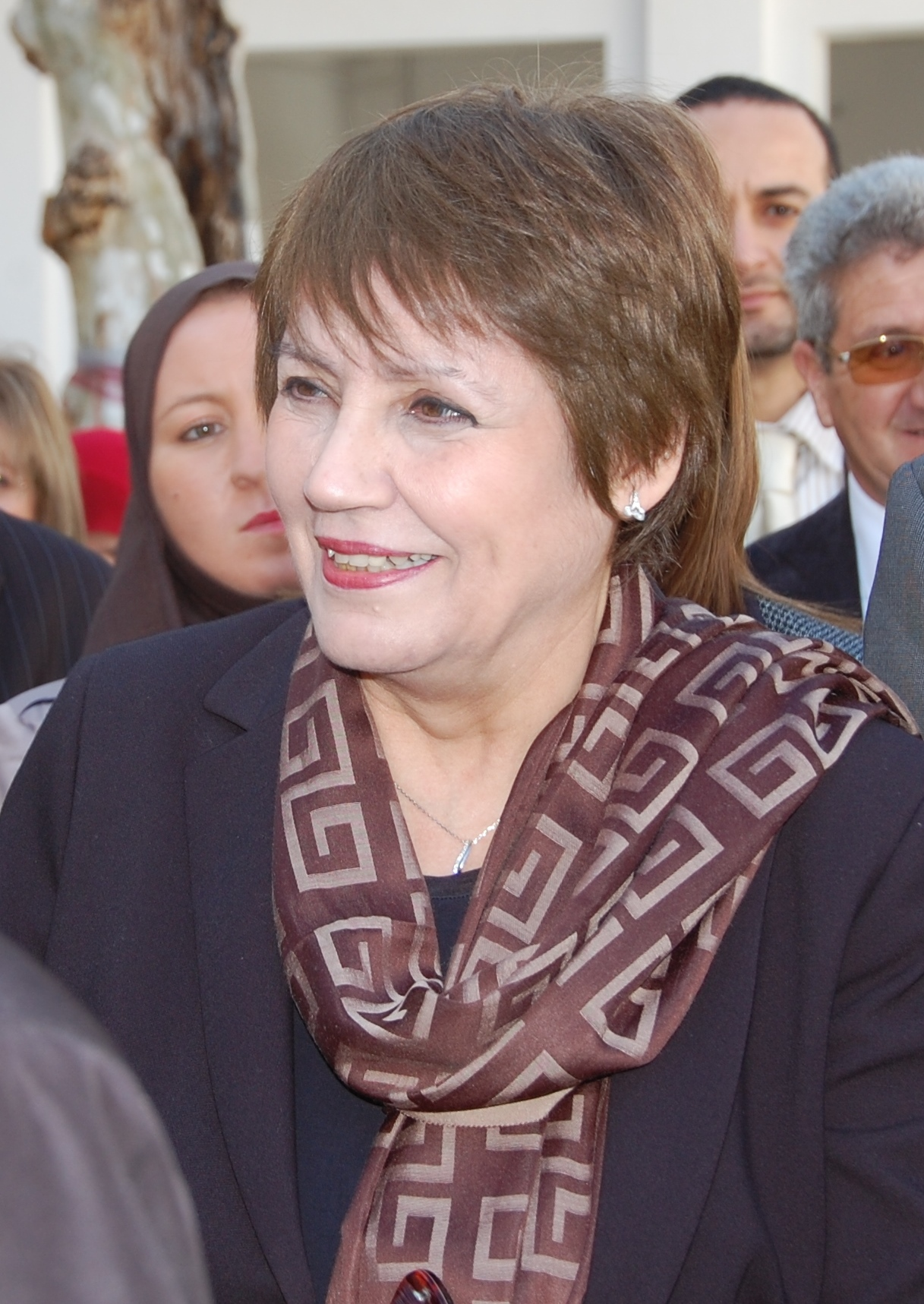 Algeria minister of National education celebrating Women's Day in Averroes (Ibn Rouchd) High school (Blida city)